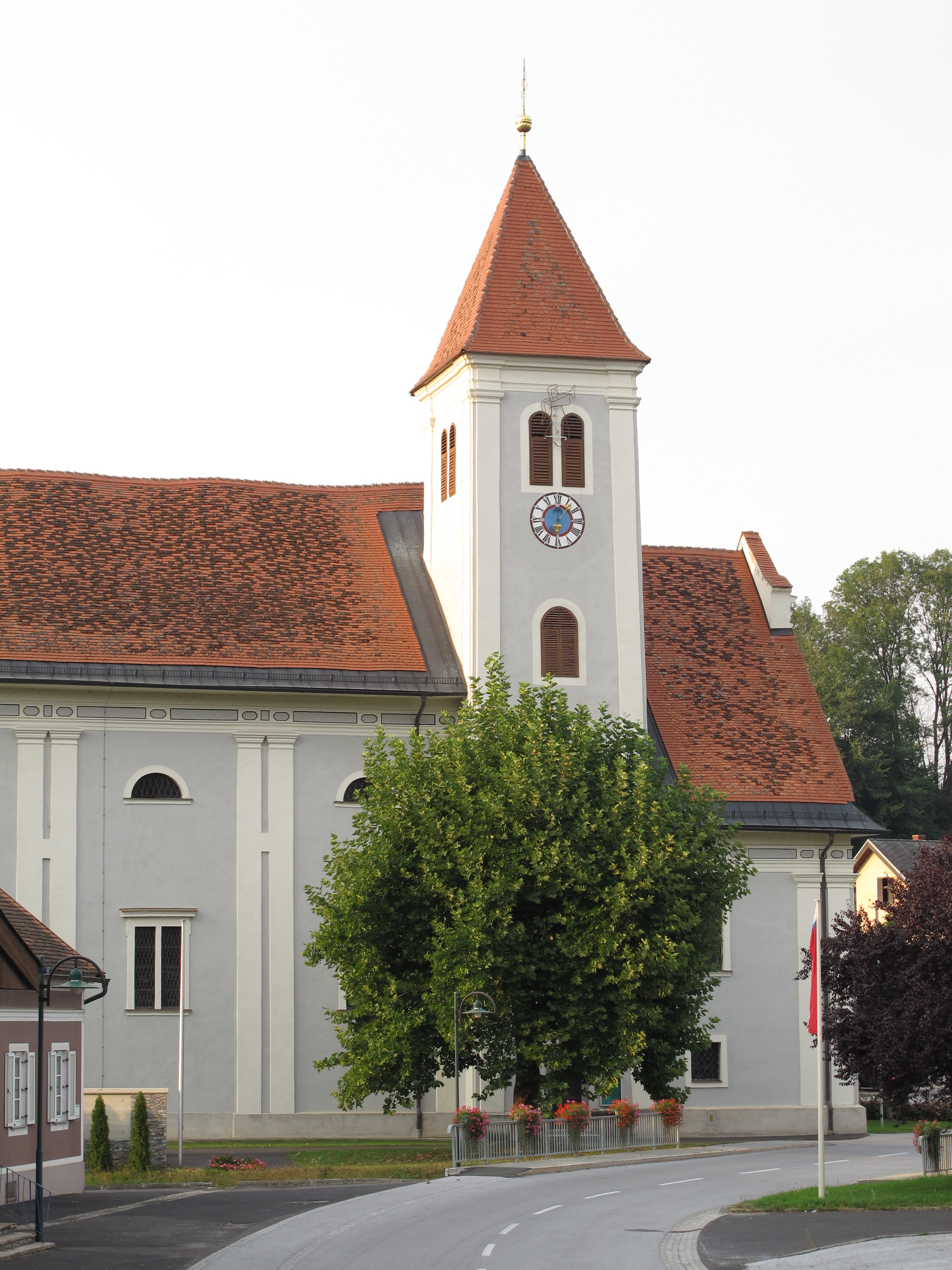 Pfarrkirche Breitenfeld an der Rittschein